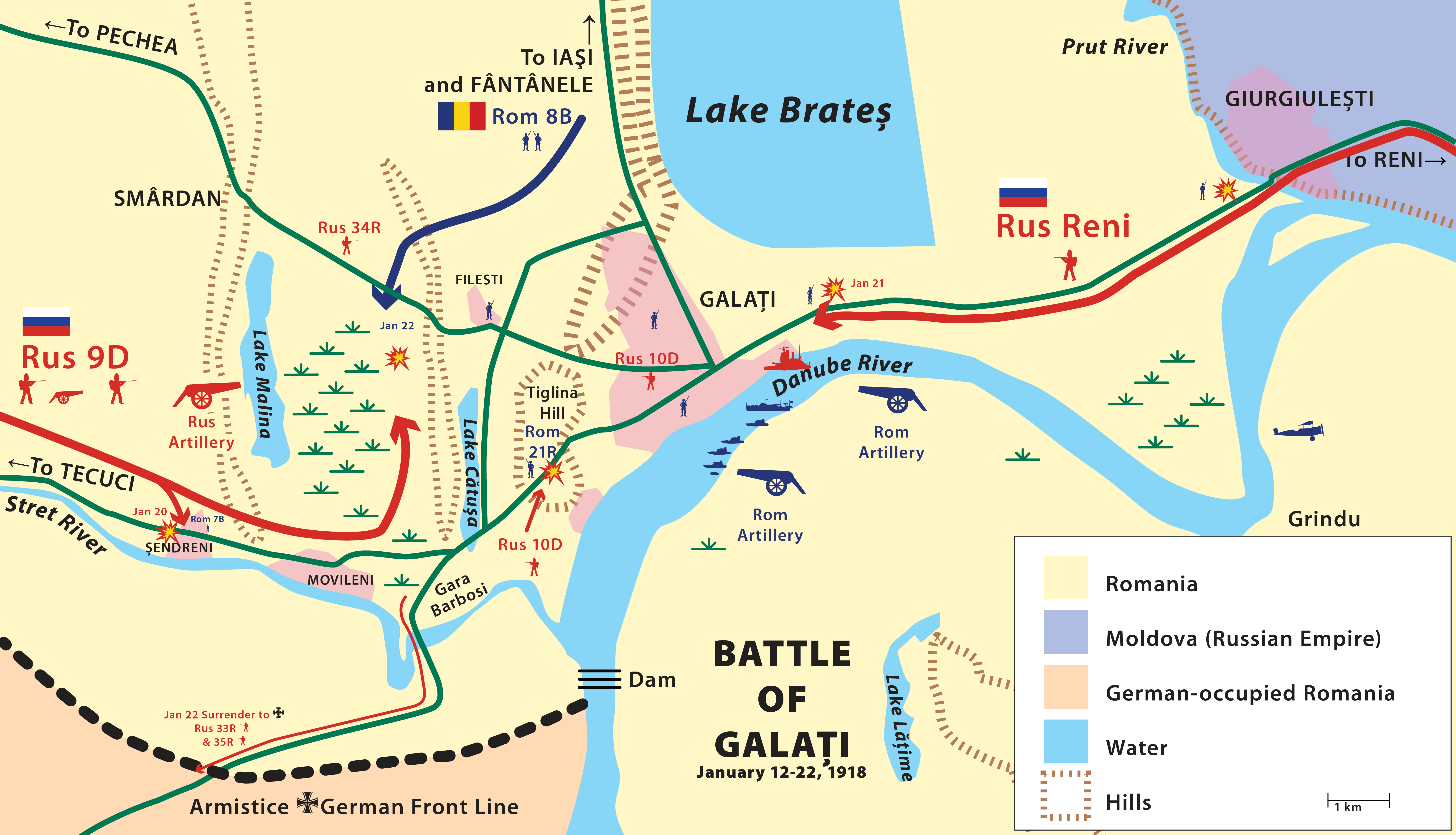 Troops movements in the Battle of Galati 1918